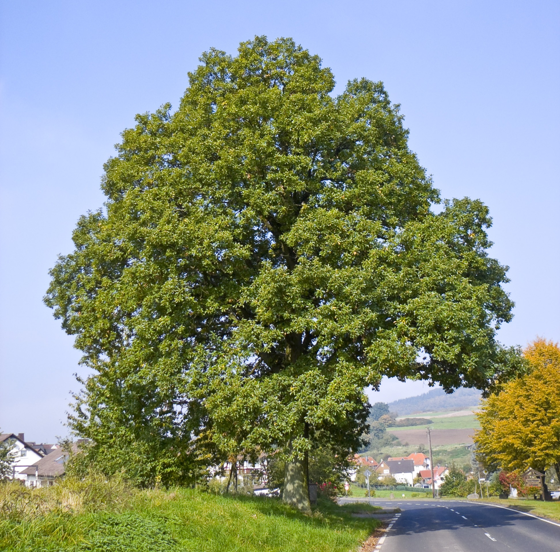 Sessile Oak (Quercus petraea) near Roßberg (Municipality Ebsdorfergrund, Marburg-Biedenkopf County), Hesse, Germany